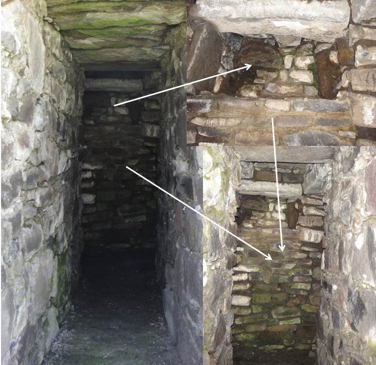 Structure 17, stages)